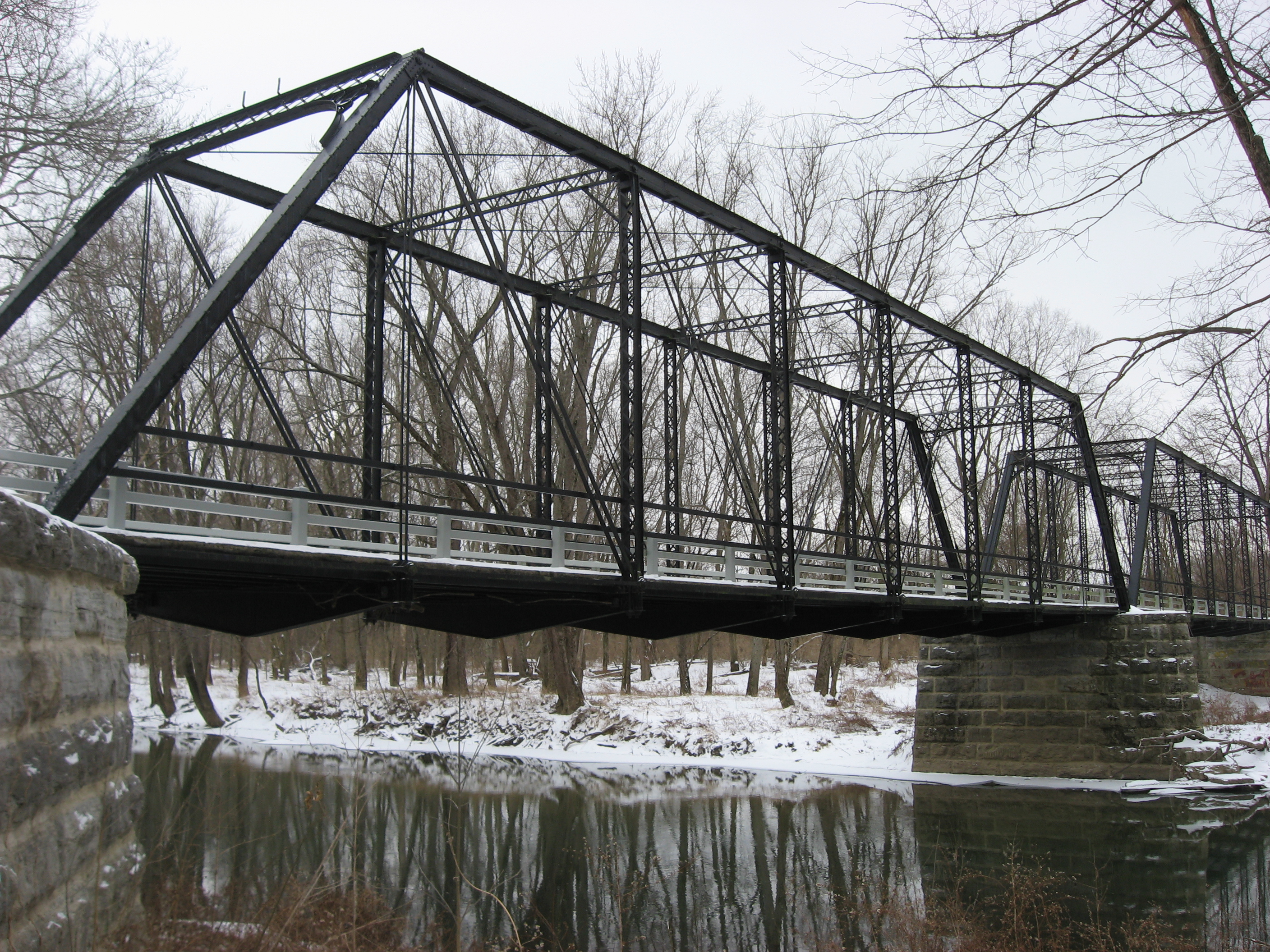 Eastern portal and northern (upstream) side of the Furnas Mill Bridge, which carries Road 650S over Sugar Creek in the Atterbury Fish and Wildlife Area northwest of Edinburgh in Blue River Township, Johnson County, Indiana, United States. Built in 1891, it is listed on the National Register of Historic Places.